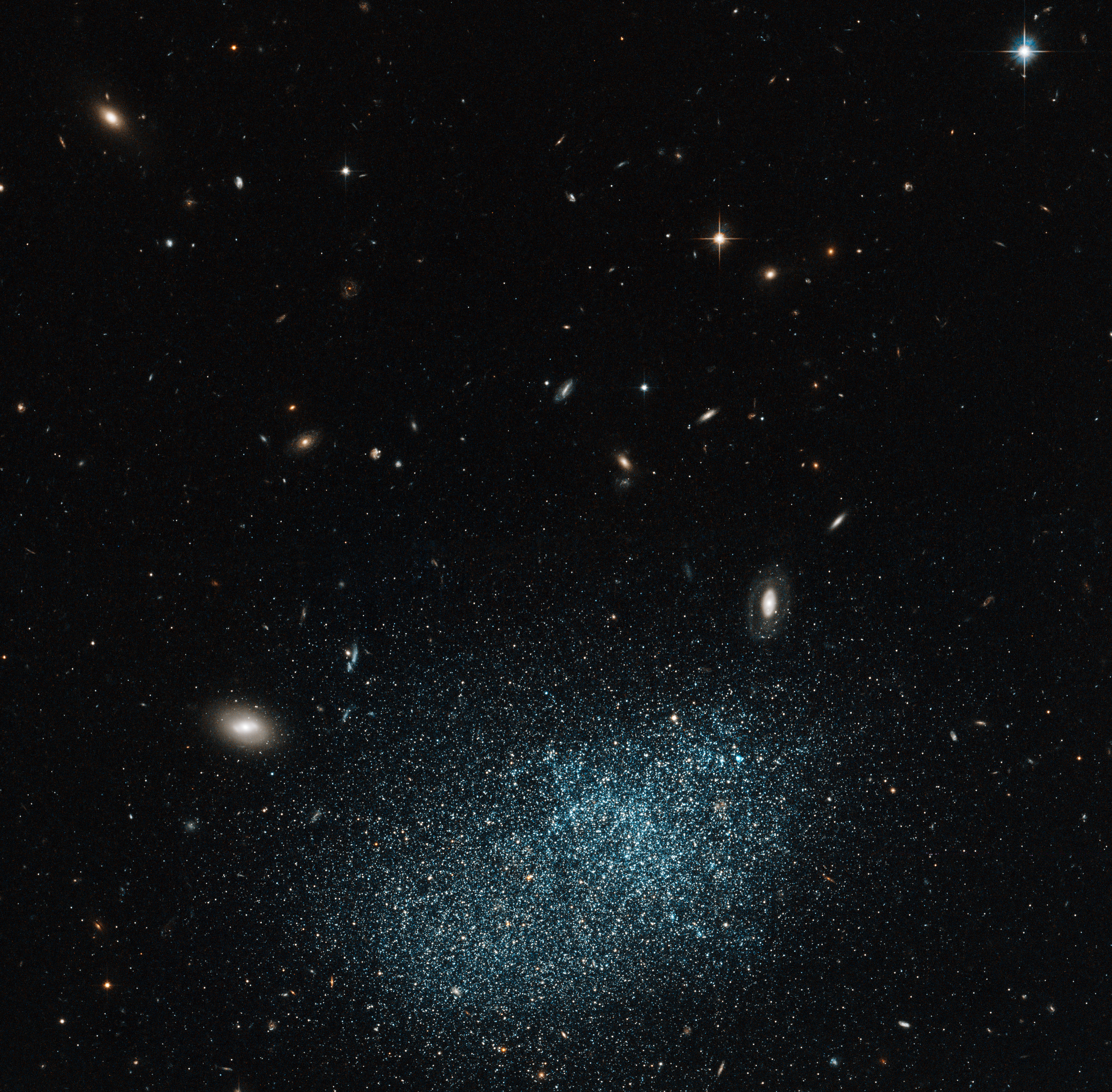 Galaxies come in all sorts of shapes and sizes, with most being classed as either elliptical or spiral. However, some fall into the miscellaneous category known as irregulars, such as UGC 9128 shown here in this NASA/ESA Hubble Space Telescope image. UGC 9128 is a dwarf irregular galaxy, which means that in addition to not having a well-defined shape, it probably contains only around one hundred million stars — far fewer than are found in a large spiral such as the Milky Way. Dwarf galaxies are important in understanding how the Universe has evolved and they are often referred to as galactic building blocks, as galaxies are thought to grow as smaller ones merge. In recent years, astronomers have been trying to find out if dwarf galaxies contain a similar halo and disc structure to their much larger counterparts, whereby older stars are found in the extended spheroidal halo, with the flat disc being home to younger stars. Observations of UGC 9128 indicate that it does indeed contain a similar halo and disc structure. UGC 9128 lies about 8 million light-years away, which means that it is part of the Local Group of more than 30 nearby galaxies, and it is found in the constellation of Boötes (The Herdsman). Despite its relative closeness it is very faint and was only discovered in the twentieth century. The Hubble image clearly resolves the galaxy’s starry population and also shows many much more distant galaxies in the background. This picture was created from images taken with the Wide Field Channel of Hubble’s Advanced Camera for Surveys. Images through a yellow-orange filter (F606W, coloured blue) were combined with images taken in the near-infrared (F814W, coloured red). The total exposure times were 985 s and 1174 s respectively and the field of view is 3.2 arcminutes across.